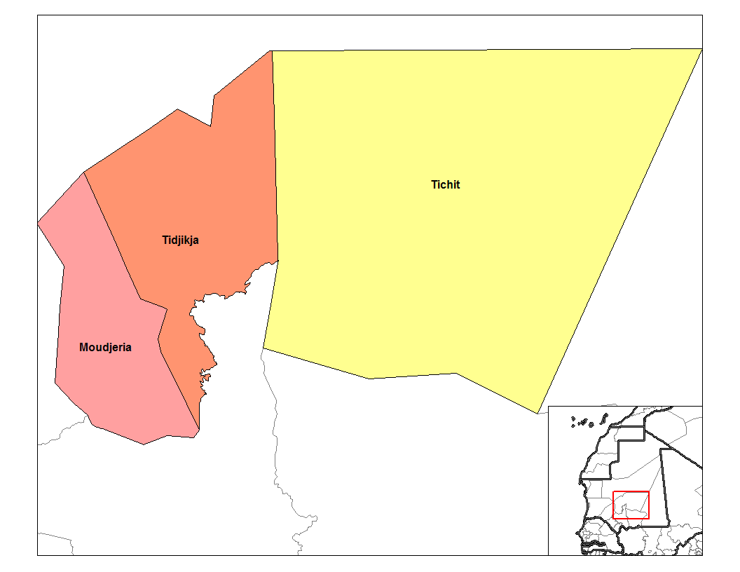 Map of the departments of Tagant region of Mauritania. Created by Rarelibra 20:14, 28 September 2006 (UTC) for public domain use, using MapInfo Professional v8.5 and various mapping resources.